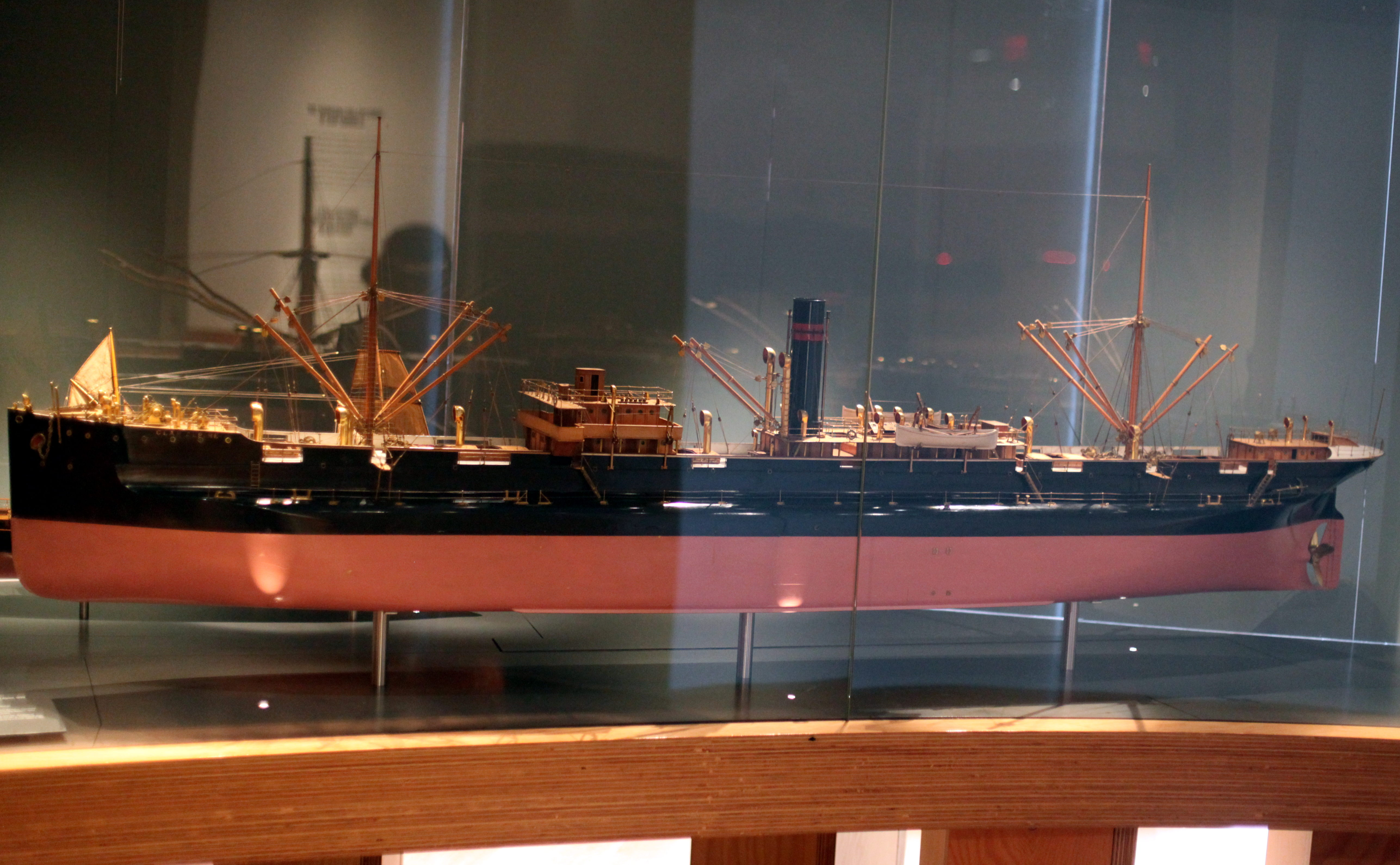 Clan Alpine was torpedoed on 10 June 1917 by U-60 near Shetland, Scotland